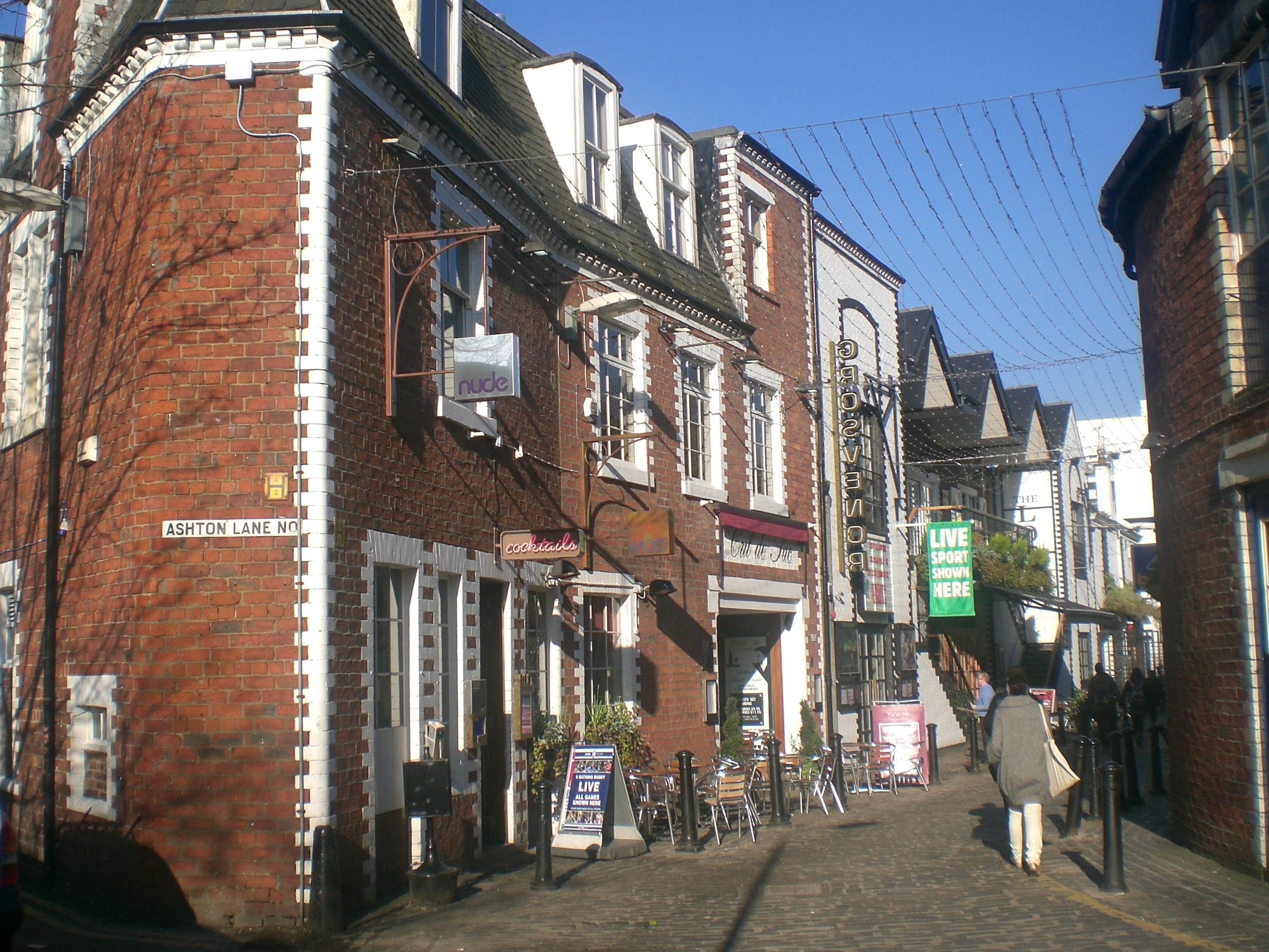 Popular Ashton lane in Glasgow's Westend.